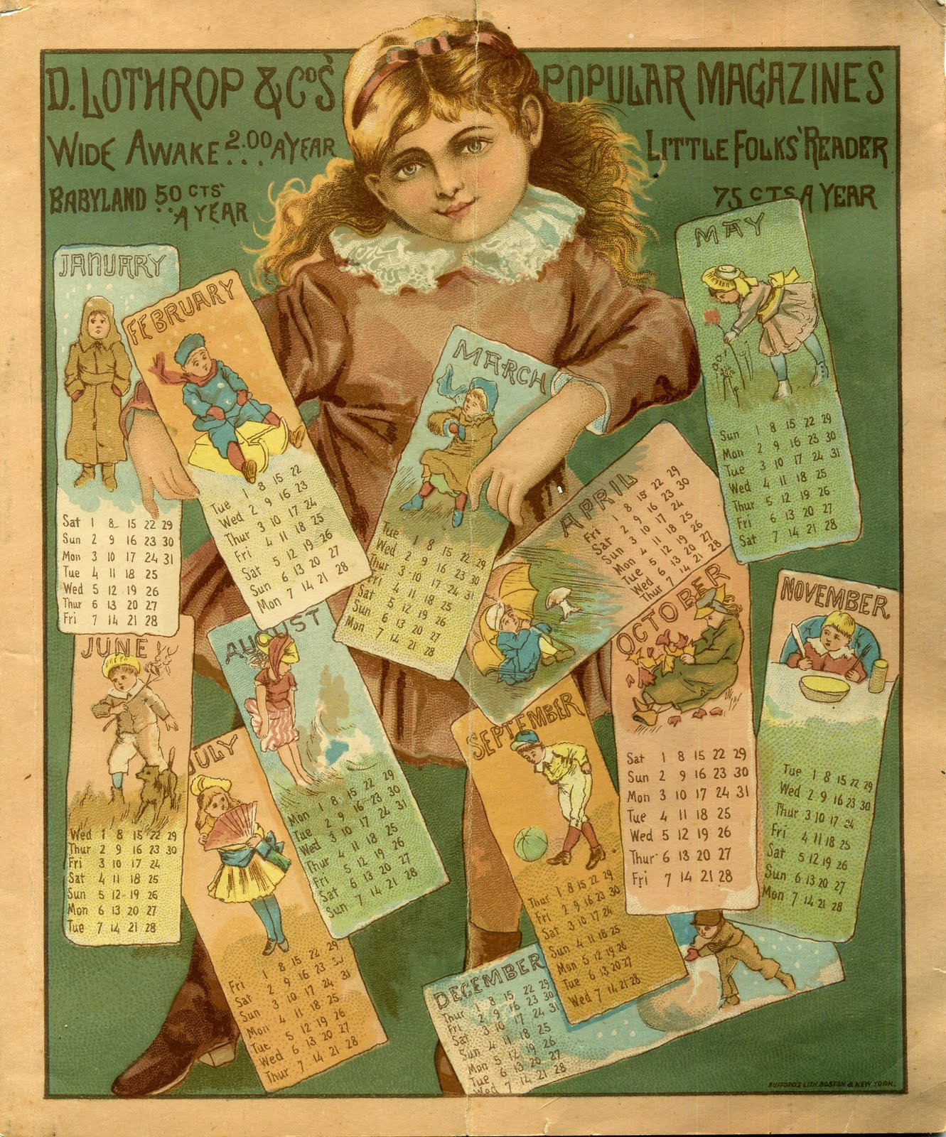 Daniel Lothrop Publishers' poster 1881